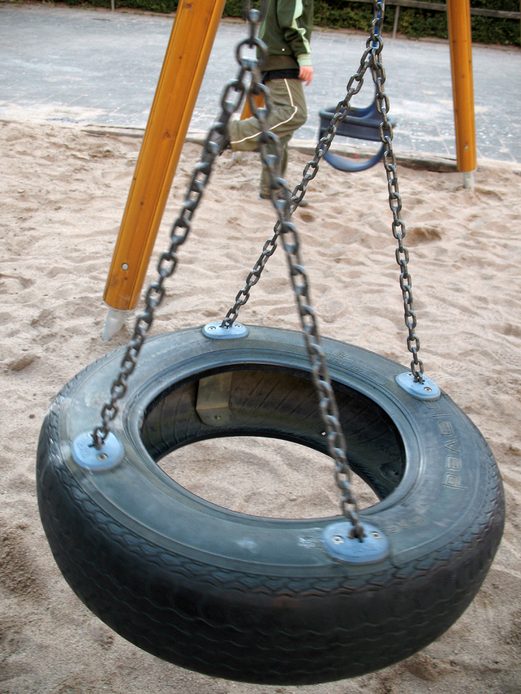 A playground swing. Image taken on 2007-04-12 in Lund, Sweden.